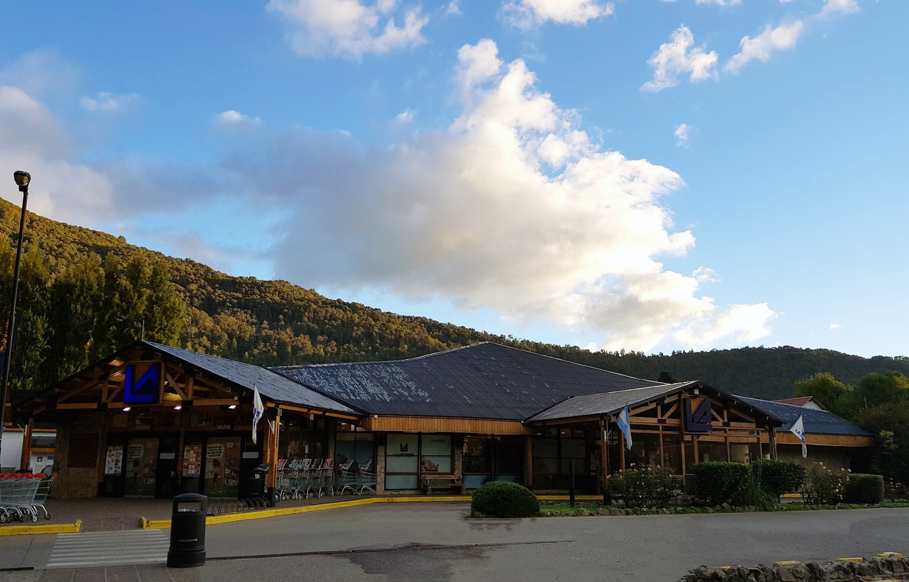 La Anonima supermarket in San Martín de los Andes, Argentina.